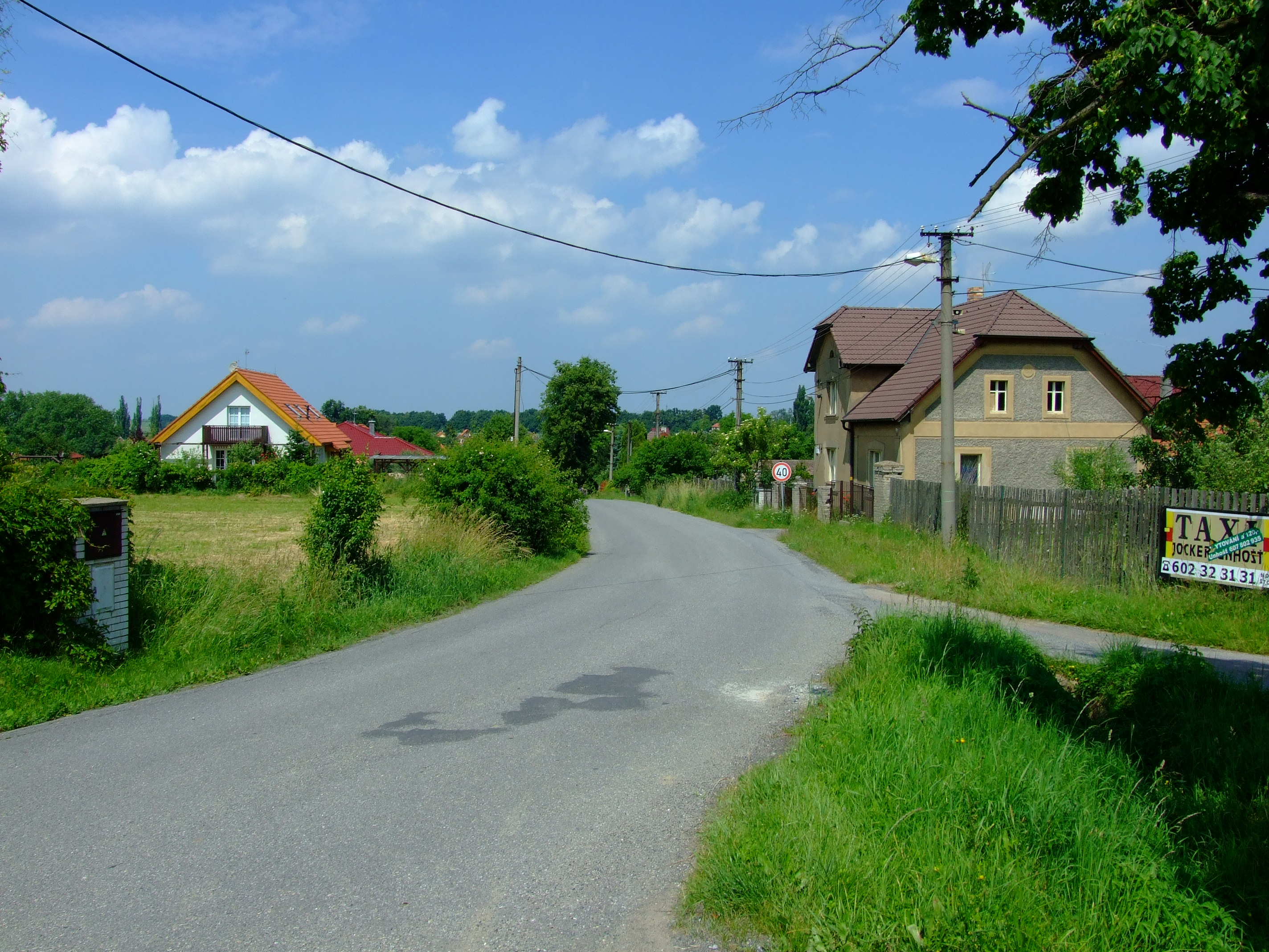 Svárov, southern part of the villagehelp